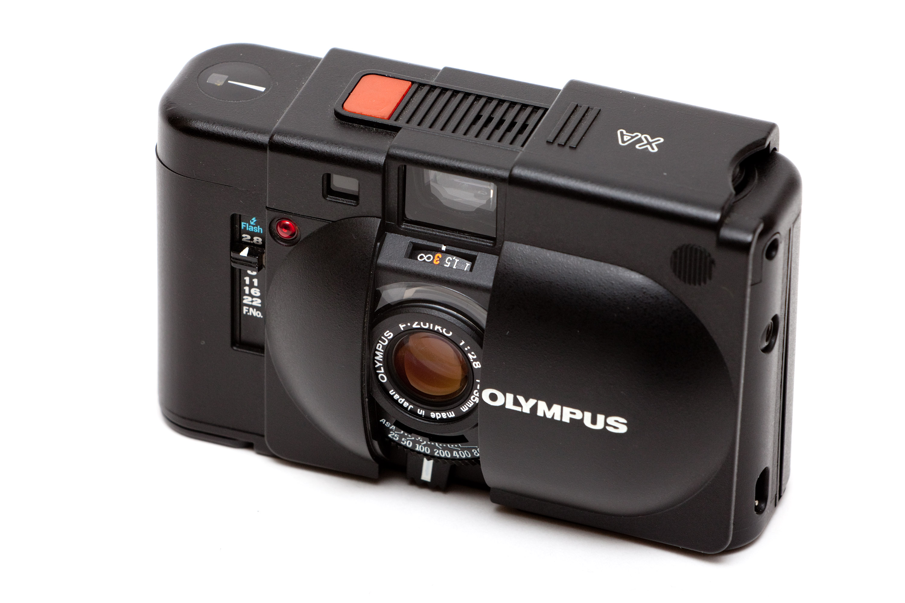 An Olympus XA